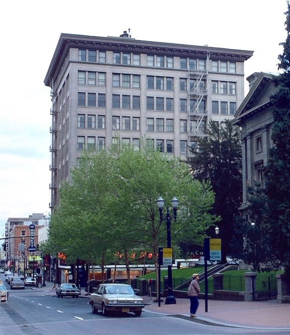 The Corbett Building was located at SW 5th & Morrison (SE corner) in downtown Portland, Oregon, and was built in 1907. It is seen here from a block away, from 6th and Morrison, along Morrison Street, past the Pioneer Courthouse. It was demolished in 1988 to make way for the Pioneer Place shopping mall. It was designed by Whidden & Lewis.